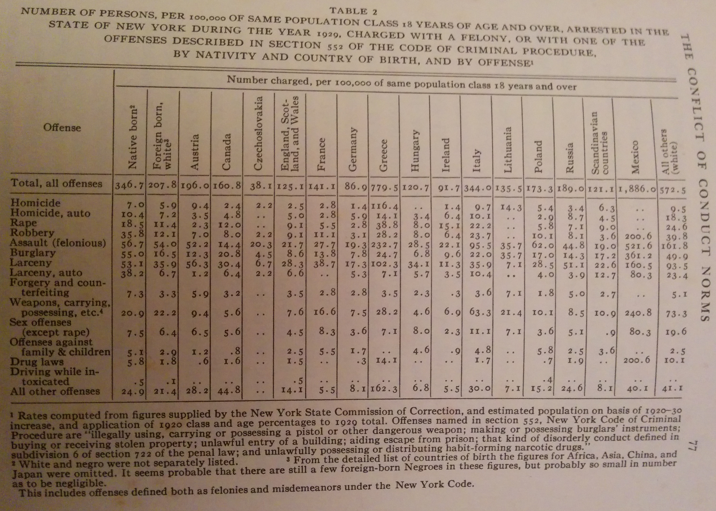 Graph by Thorsten Sellin.